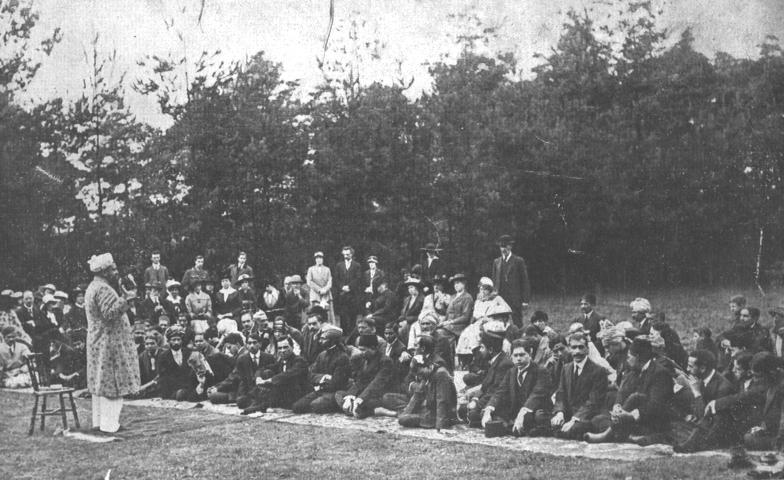 Khutba, converted Englishman, 1914